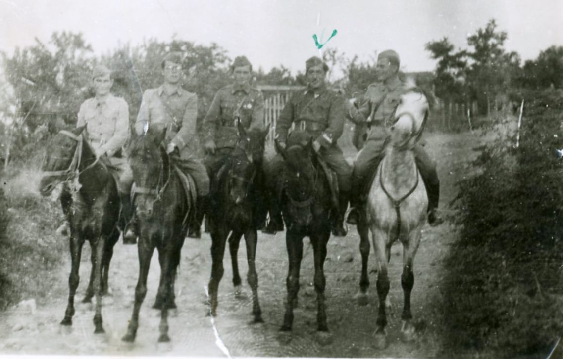 Commanders from 3rd batalion of the 5th Macedonian partisan brigade. 2nd from the right is Viktor Meshulam